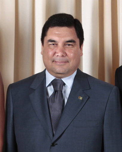 President Barack Obama and First Lady Michelle Obama pose for a photo during a reception at the Metropolitan Museum in New York with Gurbanguly Berdimuhammedov.